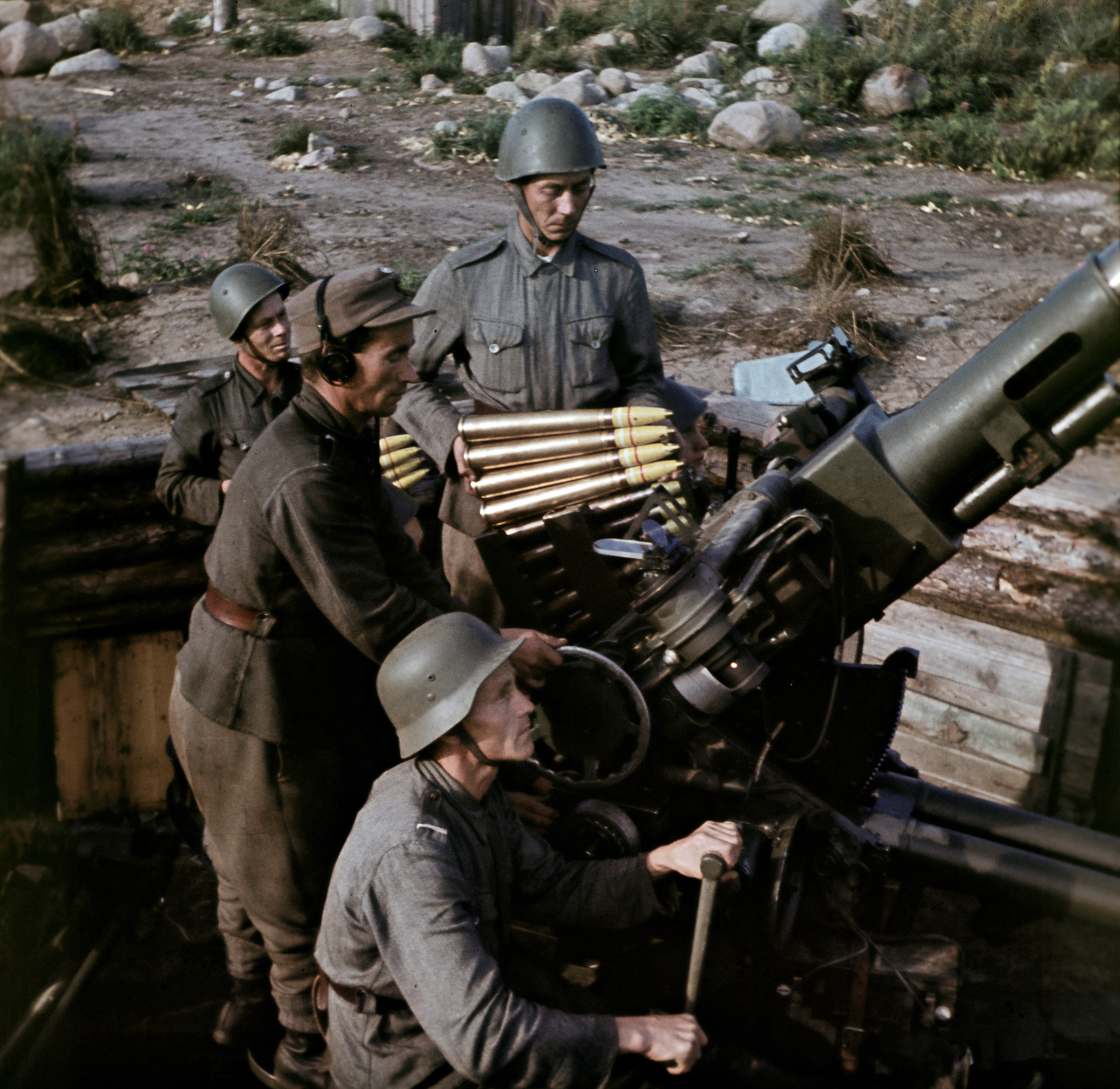 A group of Finnish soldiers operating a Bofors gun during the Continuation War, Suulajärvi.